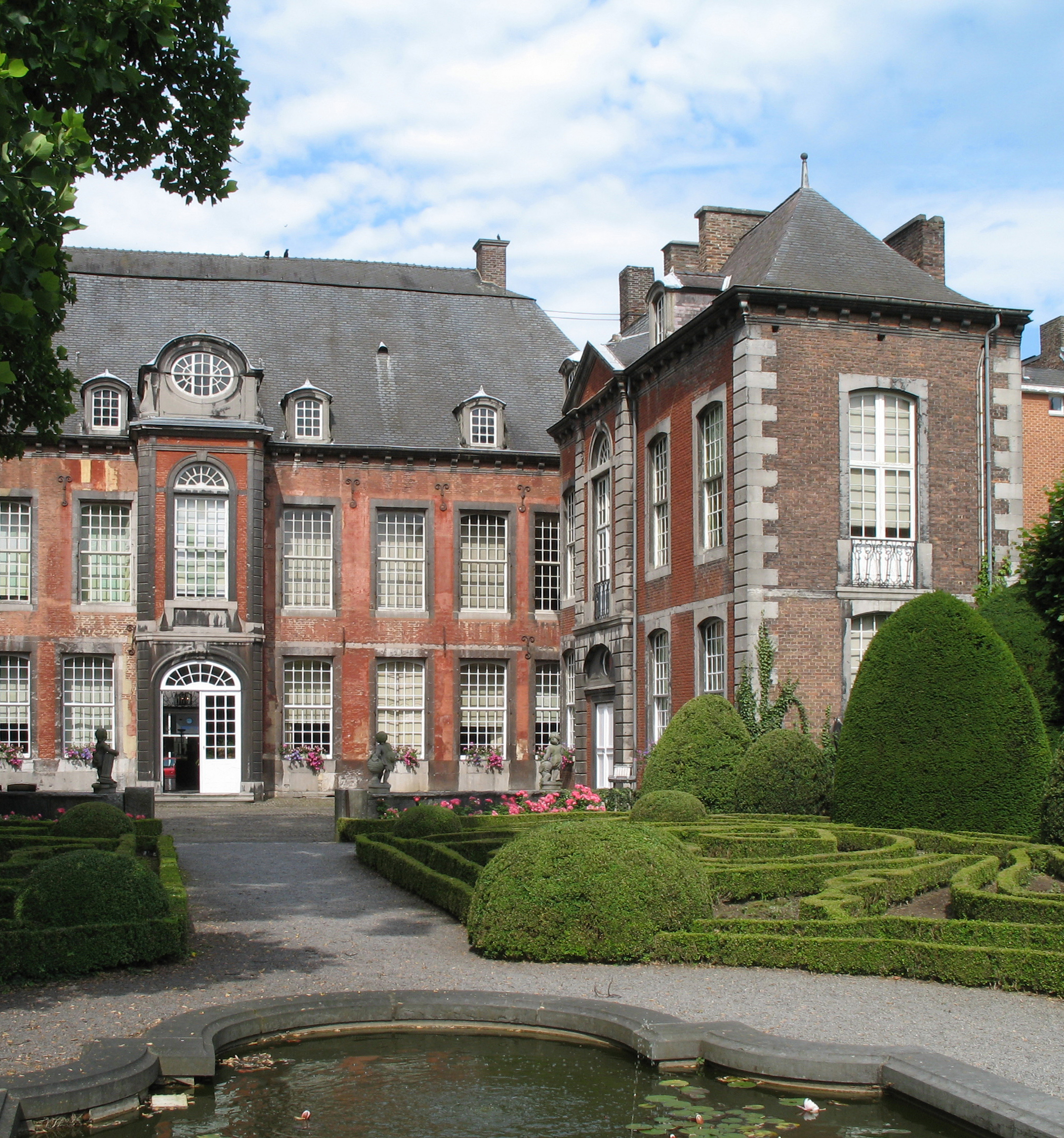 Namur (Belgium): Hôtel de Croix (now Museum Groesbeeck de Croix), garden